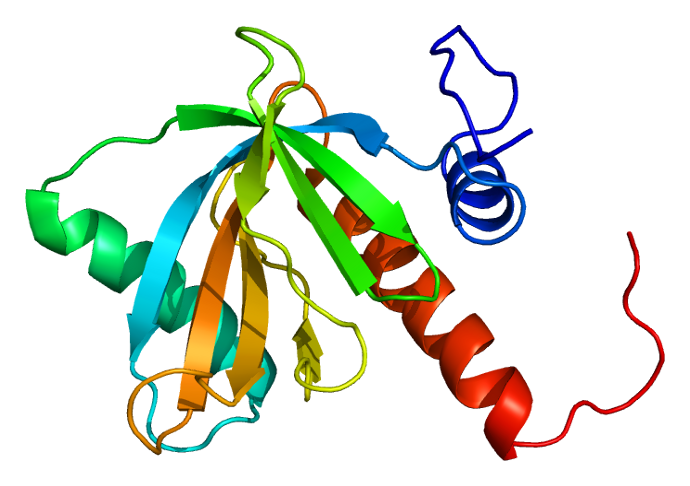 Structure of the NUMB protein. Based on PyMOL rendering of PDB 1wj1.